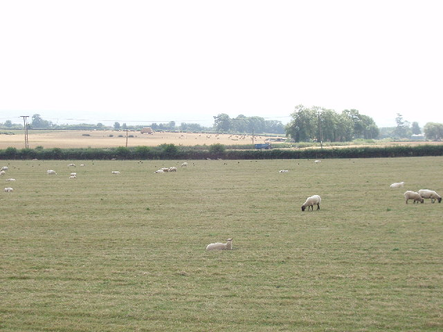 Pasture with sheep, near Blackditch Farm, Thame. Taken from the Phoenix Trail cycleway. Open fields continue to the edge of the small town of Thame.